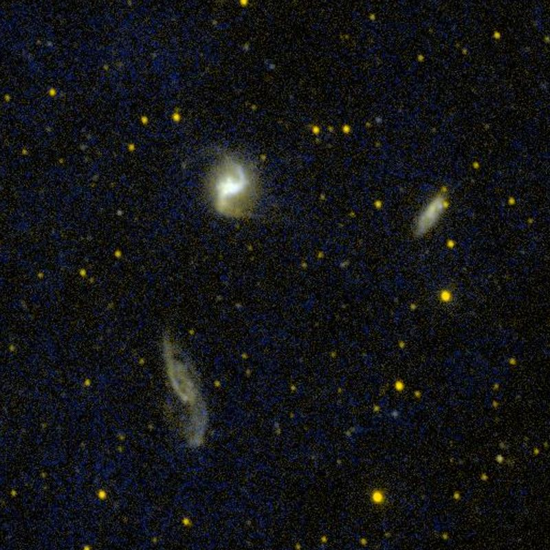 NGC 5915 (top), NGC 5916 (bottom), NGC 5916A (right) galaxies by GALEX